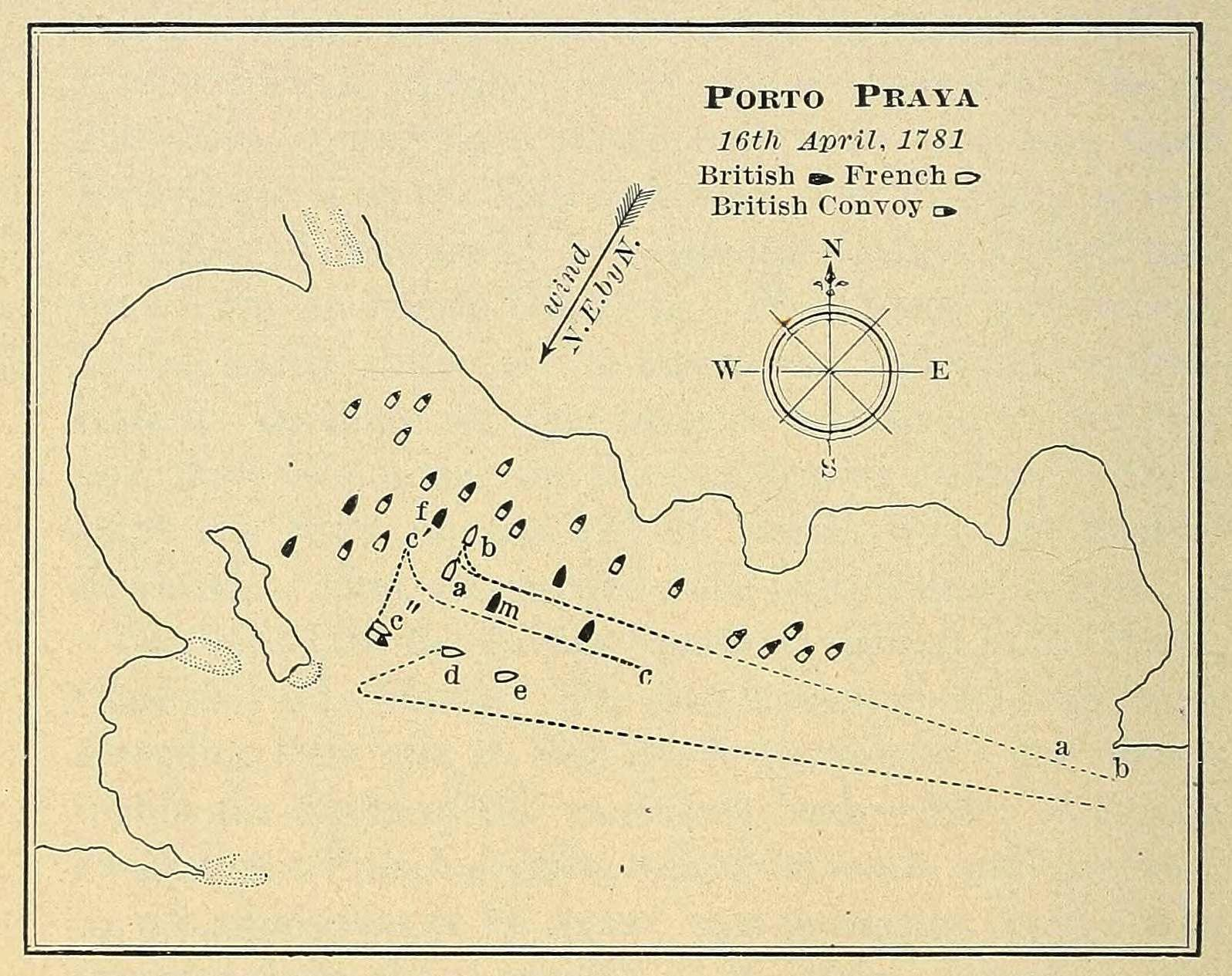 French ships : a : flagship Héros (74 guns), b : Annibal (74), c : Artésien (64), d : Vengeur (64), e : Sphinx (64). British ships : f : HMS Hero (74), m : HMS Monmouth (64).